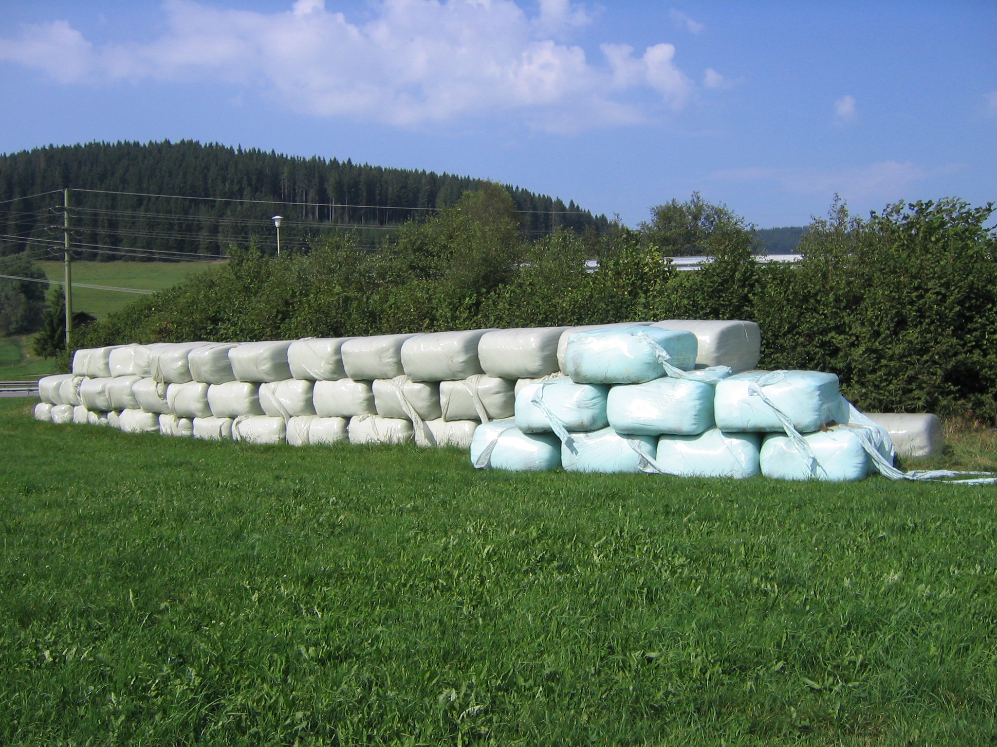 Silage bales, recorded in Titisee-Neustadt